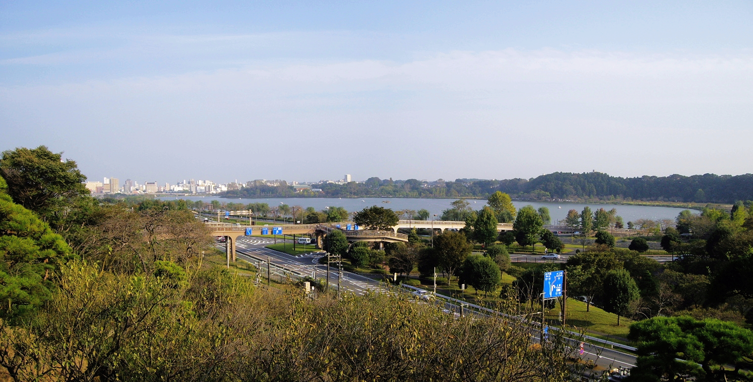 The perspective of the Senba Lake from Senekidai.